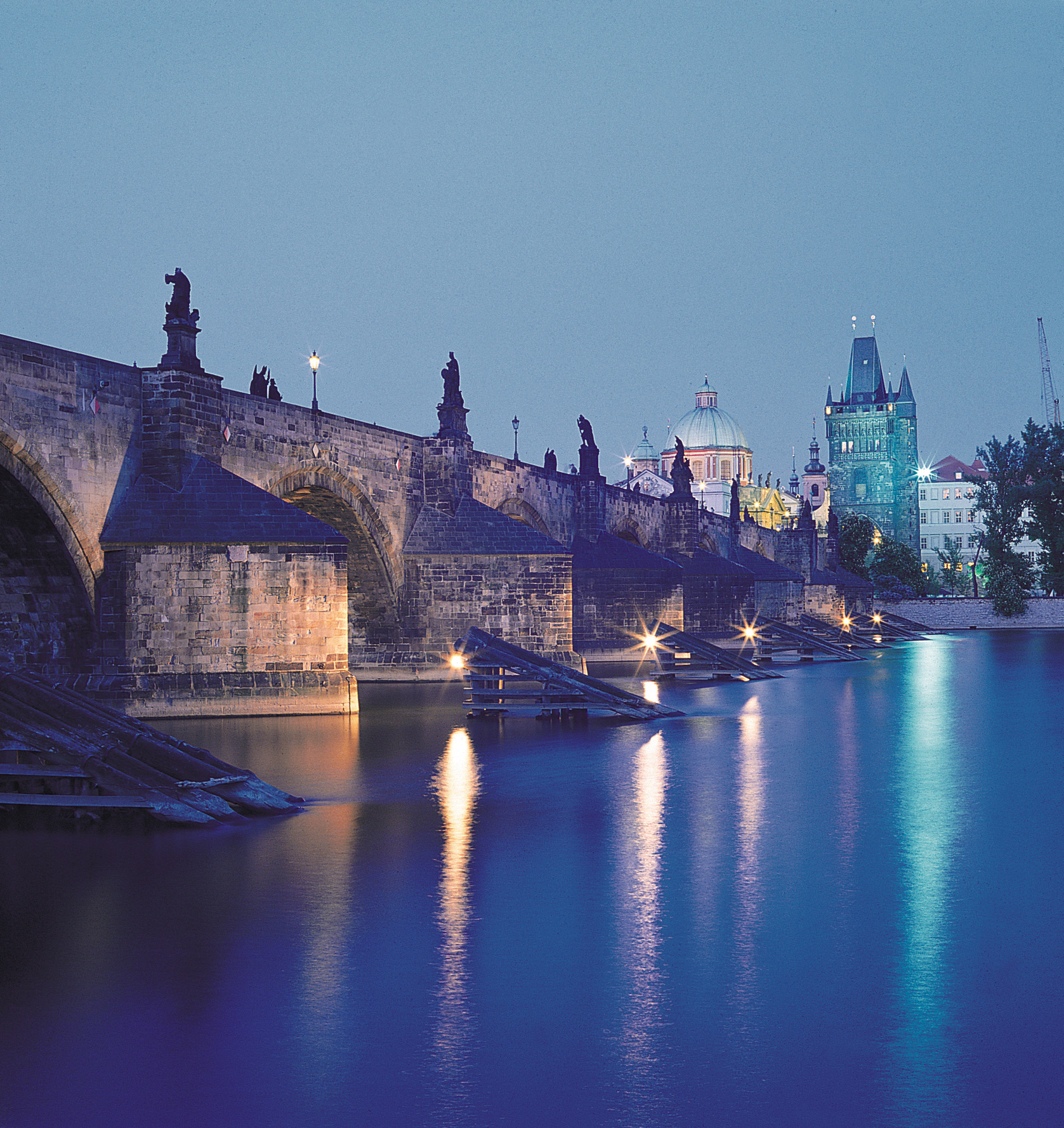 Charles Bridge at night from the Lesser Quarters